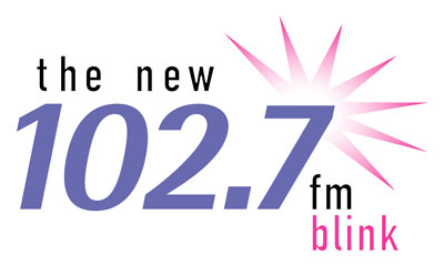 Article=WWFS History=first WWFS logo as Blink 102.7